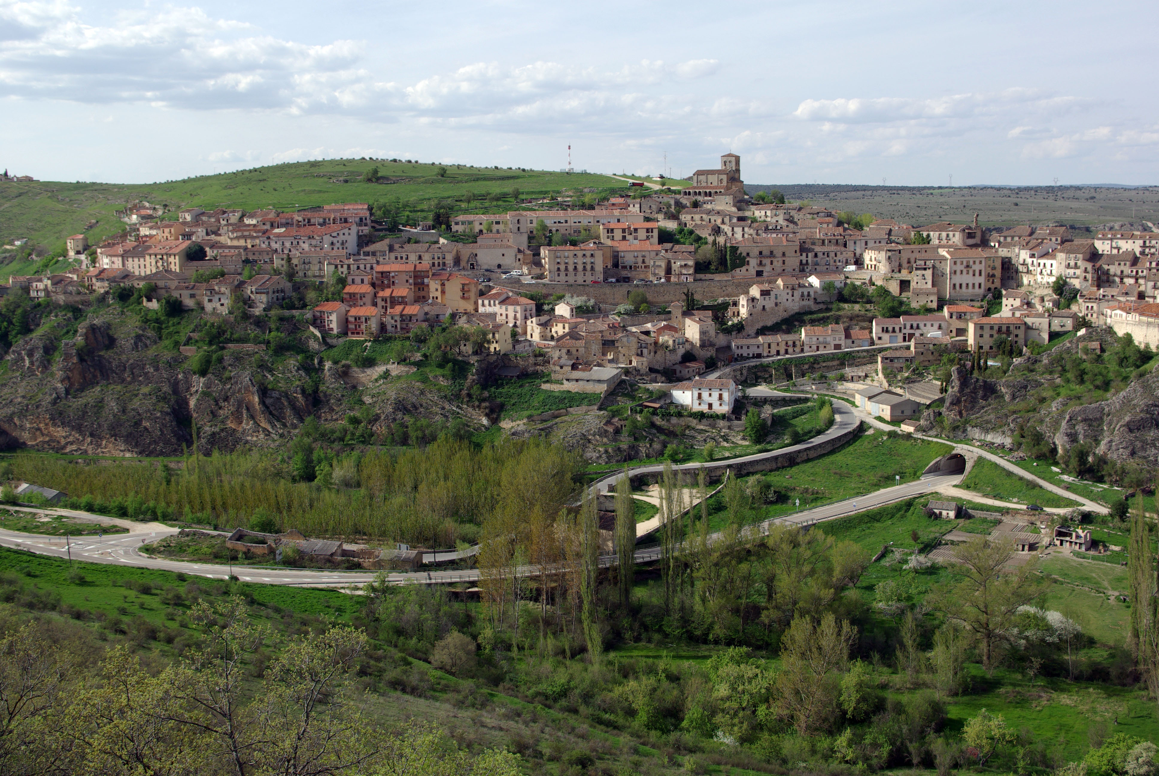 Southern view of Sepúlveda (Segovia, Spain).